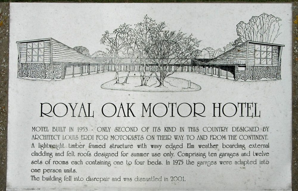 The sign at the site of the Royal Oak Motel at Newingreen in Kent